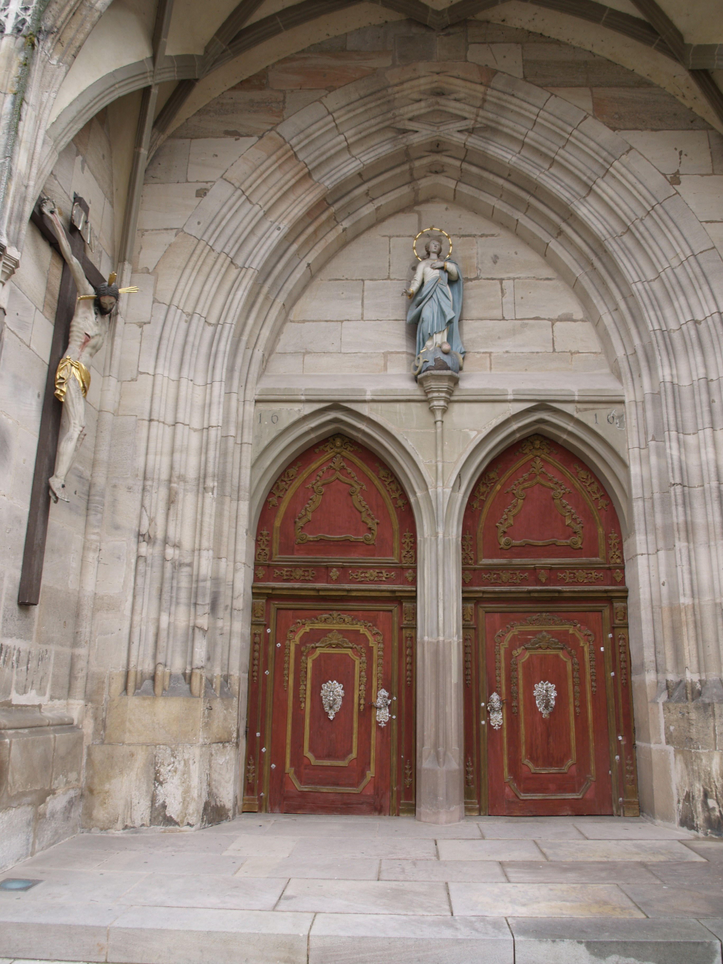 exterior view St. Georg Dinkelsbühl Markttor or Männertor